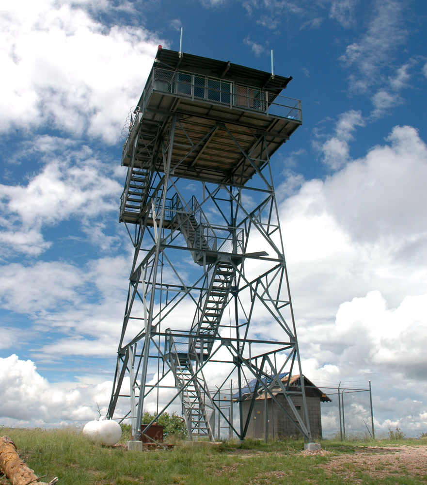 U.S. Forest Service fire lookout tower on the summit of Aztec peak (7694 ft).